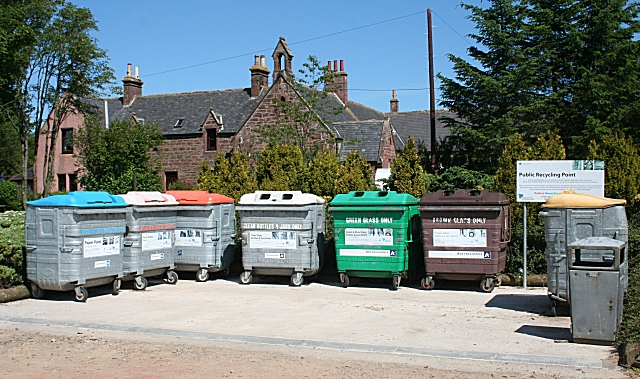 Recycling Point Every village has its recycling point these days, New Byth being no exception.